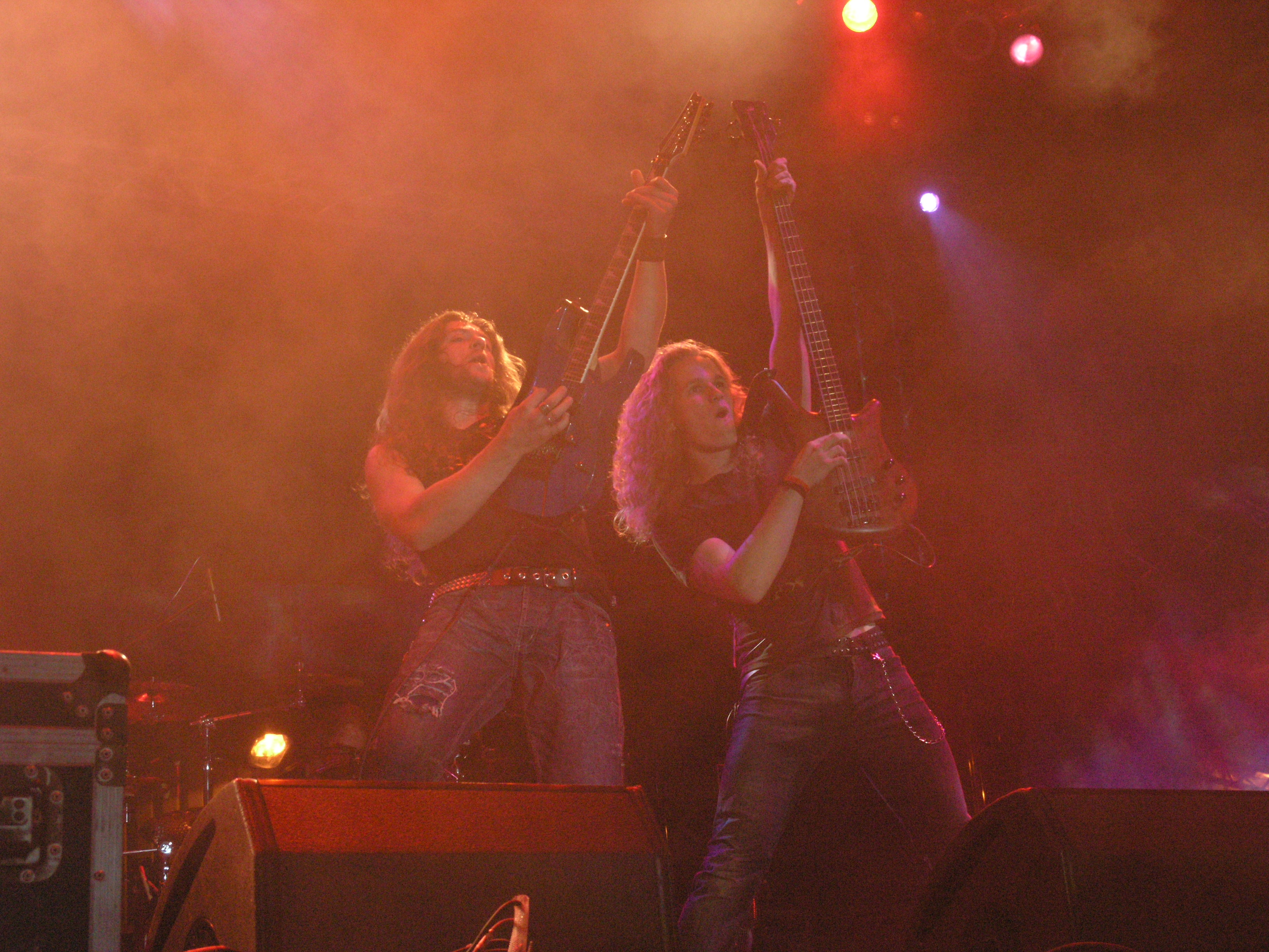 Music band After Forever during Masters of Rock 2007 festival